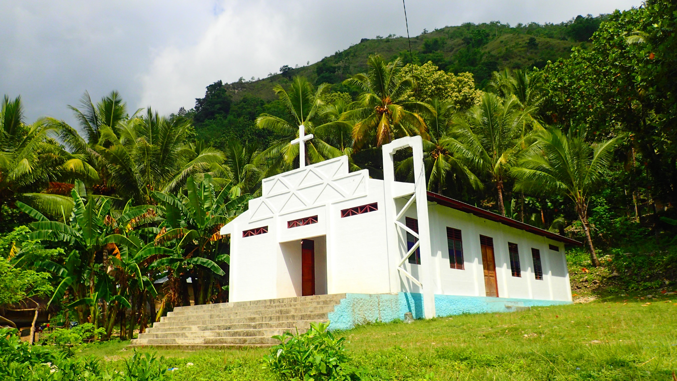 Church in Atelari village, Baguia, Timor Leste